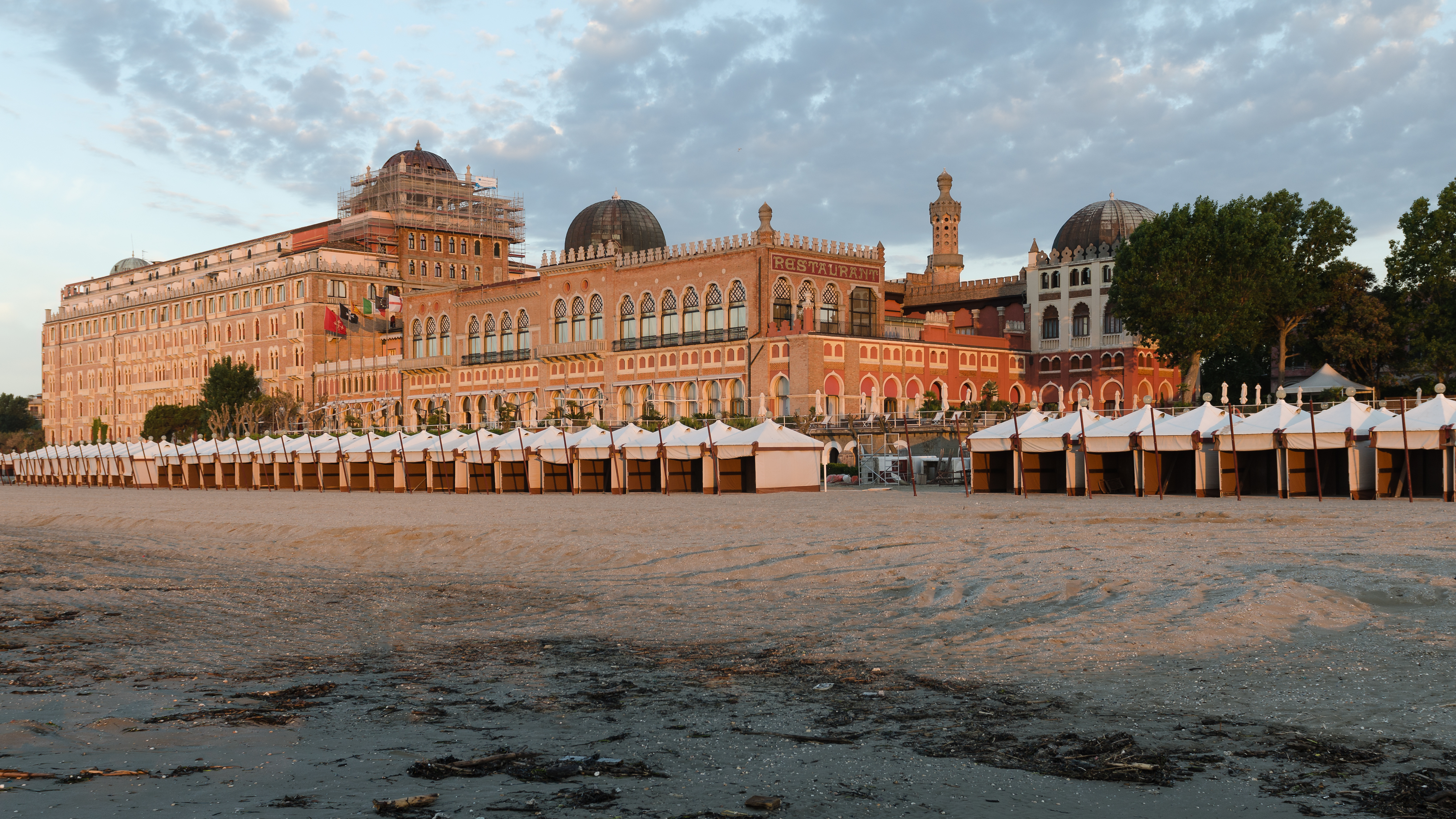 Hotel Excelsior (Lido di Venezia)